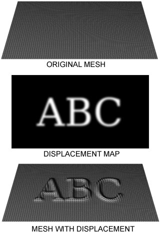 Image showing displacement mapping. This image was created to illustrate a wikipedia article.